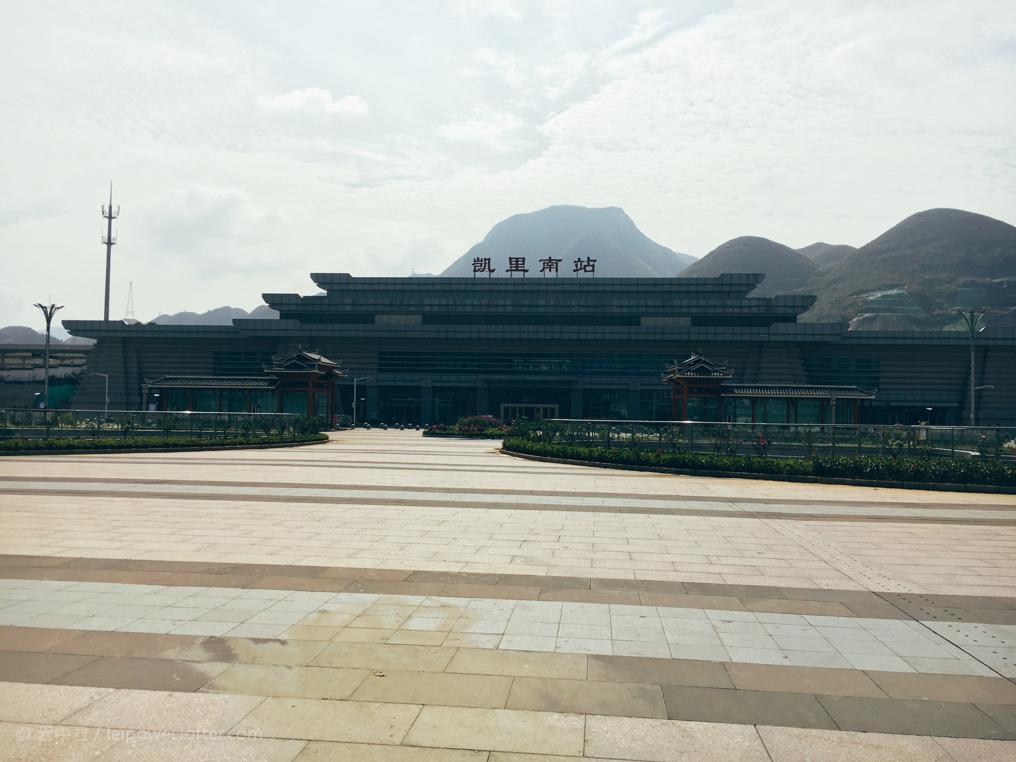 The Kailinan railway station in Kaili, Guizhou, China.